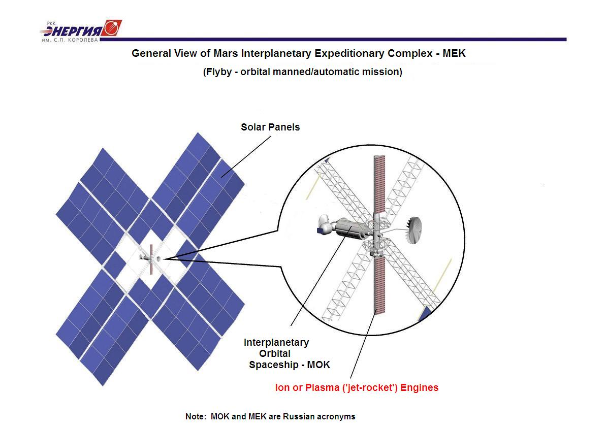 General view of Mars Interplanetary Complex